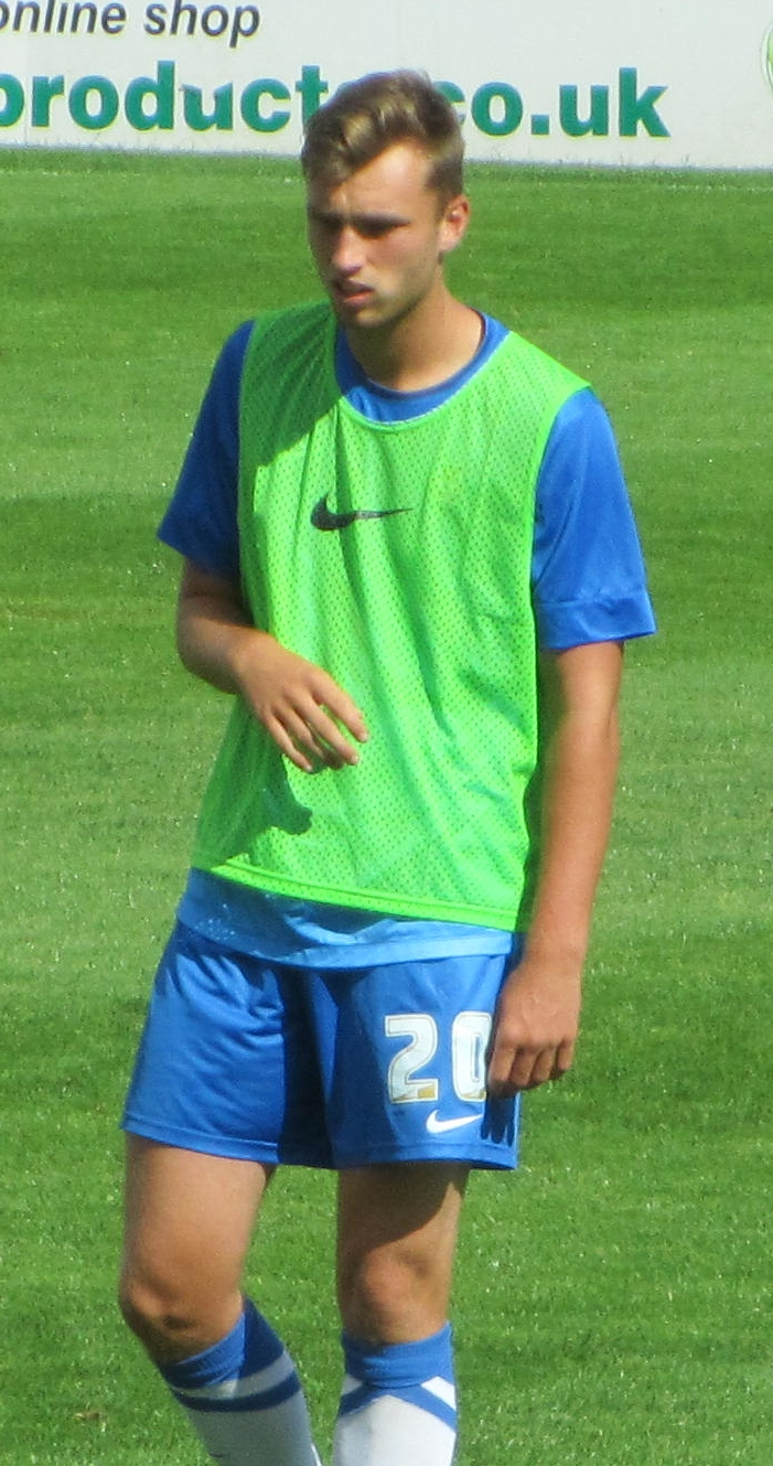 Tom Allan warming up for York City against Northampton Town at Bootham Crescent, York on 3 August 2013